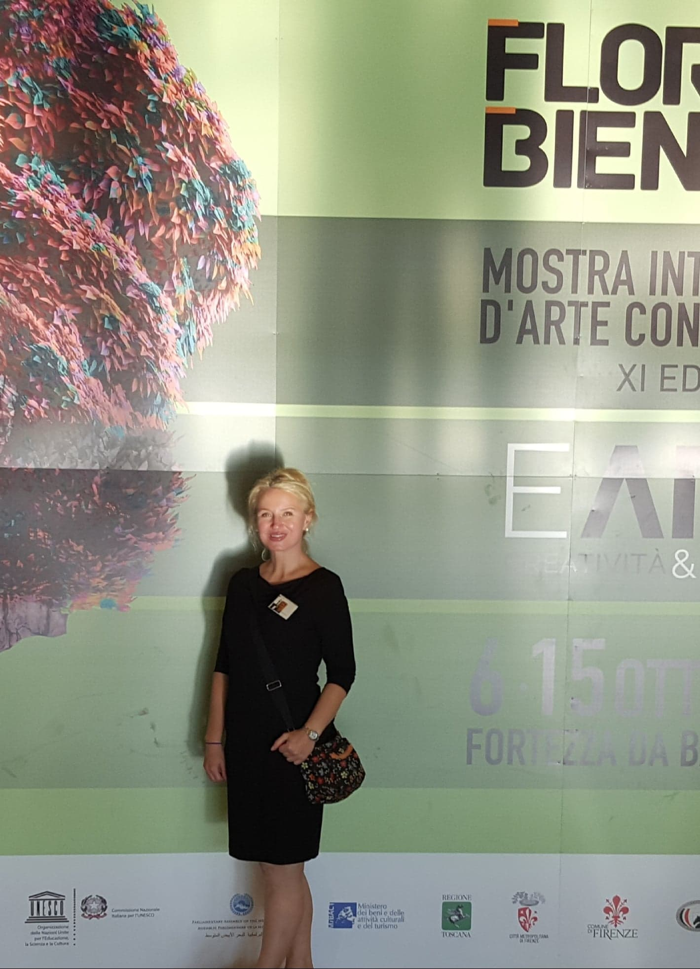 Kjomme at the XIth Florence Biennale of Contempoaray Art